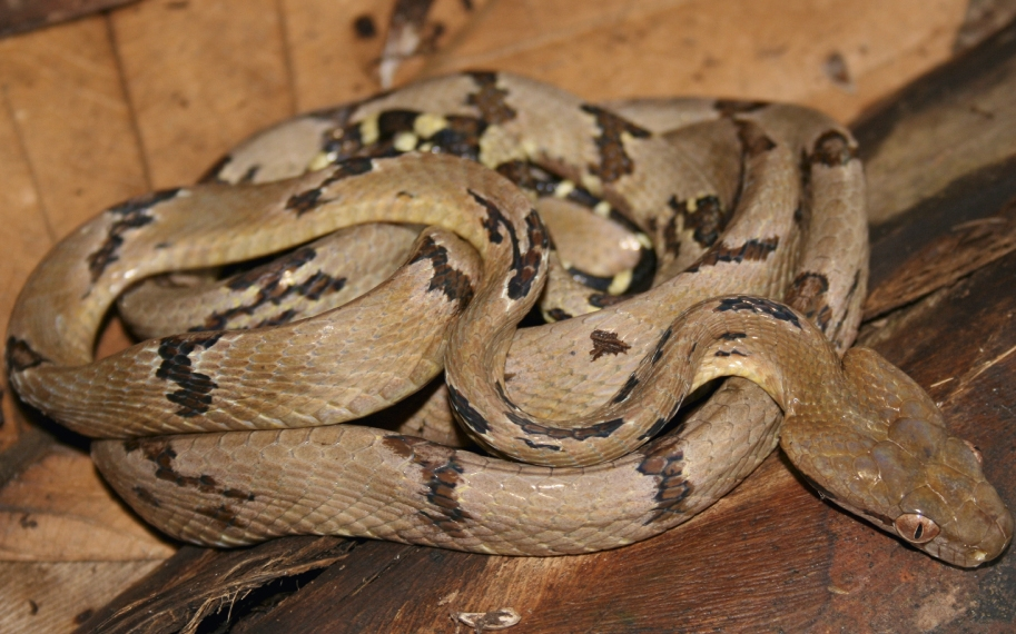 Boiga cynodon subadult, from the the Santubong Peninsula (Borneo).